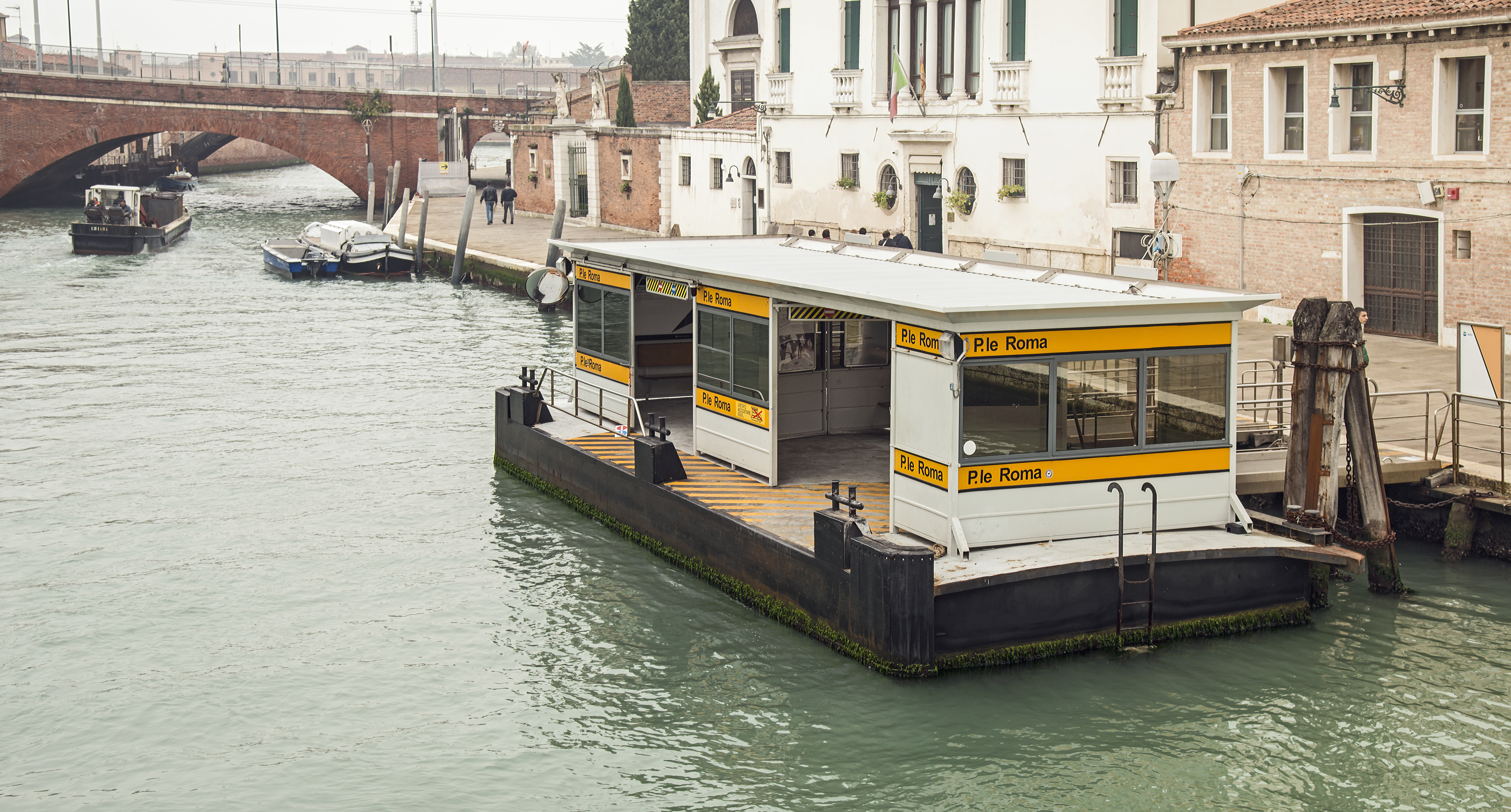 Vaporetto stops on Canale di Santa Chiara in Venice : Piazzale Roma (S.Andrea).